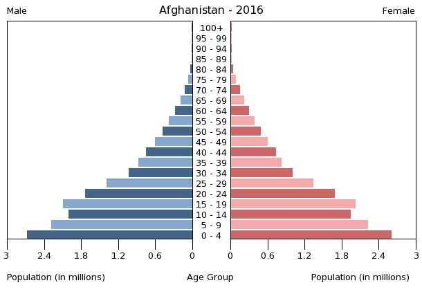 The population pyramid of Afghanistan illustrates the age and sex structure of population and may provide insights about political and social stability, as well as economic development. The population is distributed along the horizontal axis, with males shown on the left and females on the right. The male and female populations are broken down into 5-year age groups represented as horizontal bars along the vertical axis, with the youngest age groups at the bottom and the oldest at the top. The shape of the population pyramid gradually evolves over time based on fertility, mortality, and international migration trends.